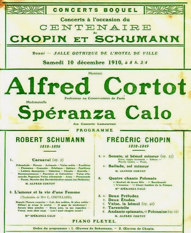 Publicity for opera singer Spéranza Calo-Séailles